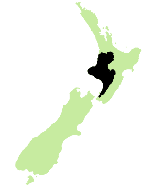 Map showing the Te Tai Hauauru electorate based on boundaries used for the 2008 and 2011 general elections